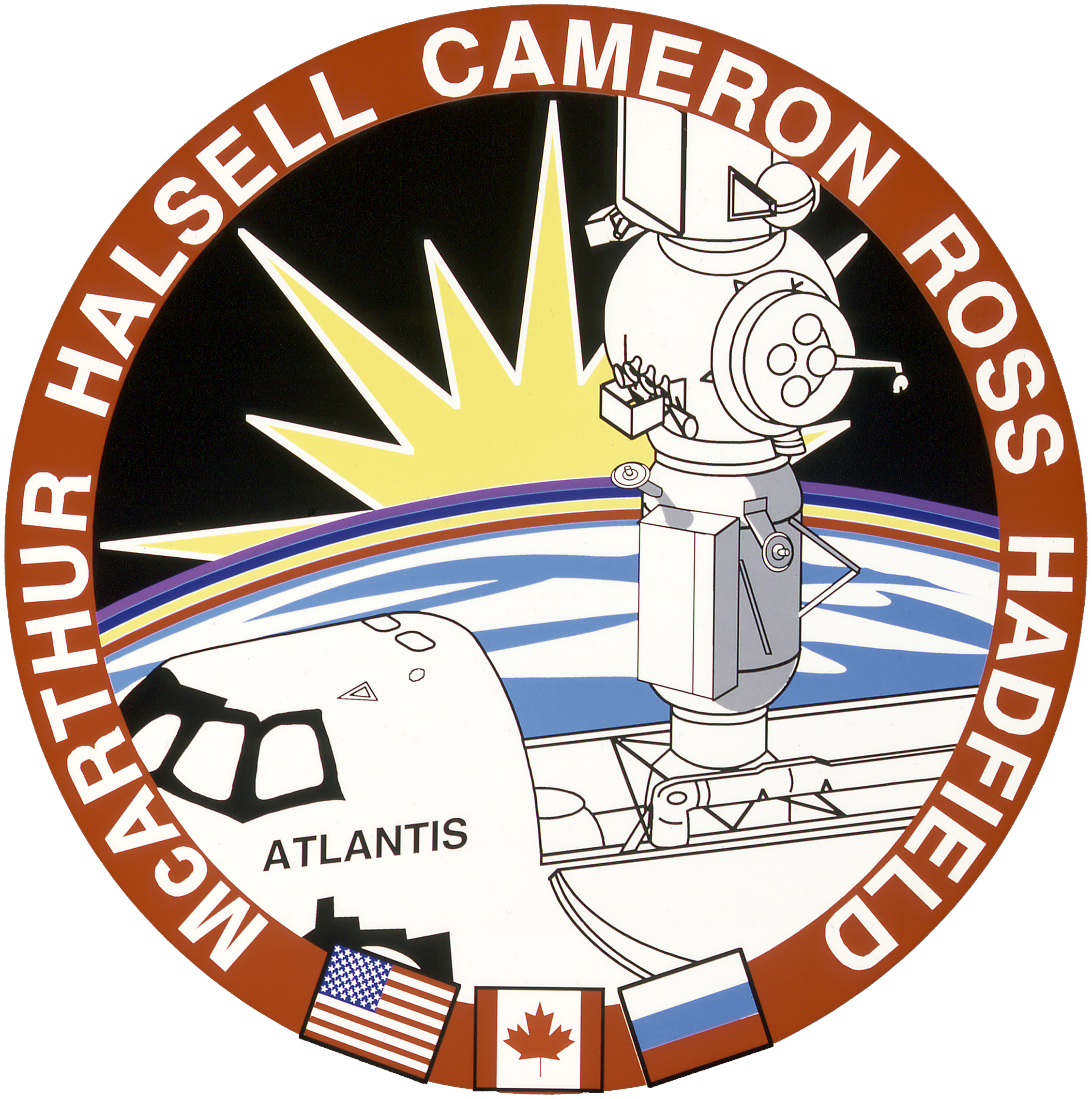 STS-74 Mission Insignia The STS-74 crew patch depicts the orbiter Atlantis docked to the Russian Space Station Mir. The central focus is on the Russian-built docking module, drawn with shading to accentuate its pivotal importance to both STS-74 and the NASA-Mir Program. The rainbow across the horizon represents the Earth's atmosphere, the thin membrane protecting all nations, while the three flags across the bottom show those nations participating in STS-74: Russia, Canada, and the United States. The sunrise is symbolic of the dawn of a new era in NASA space flight , that of International Space Station construction.